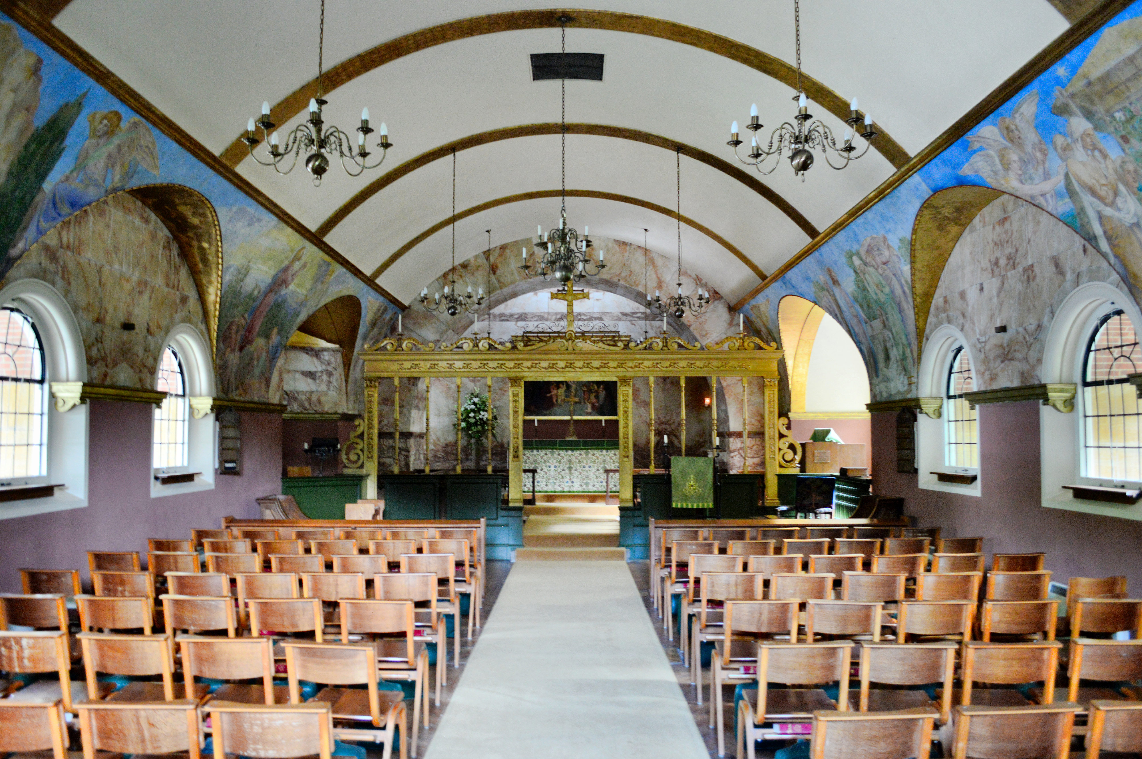 Blackheath, St Martin's Church, interior